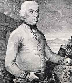 Michael Friedrich Benedikt Baron von Melas (1729-1806), Austrian general